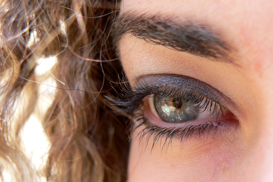 View On Black [...] Blue eyes Baby's got blue eyes Like a clear blue sky Watching over me Blue eyes I love blue eyes When I'm by her side Where I long to be I will see Blue eyes laughing in the sun Laughing in the rain Baby's got blue eyes And I am home, and I am home again